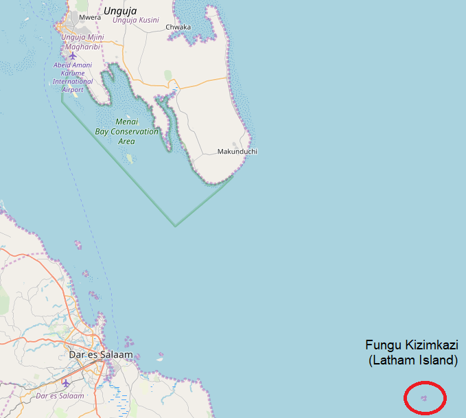 Location of Fungu Kizimkazi, also called Latham Island and Fungu Mbaraka, in the Indian Ocean off the coast of Tanzania (screenshot from )